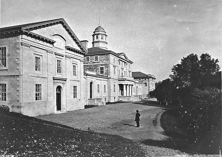 Photograph, Arts Building, McGill College, Montreal, QC, about 1875, William Notman (1826-1891), Silver salts on paper mounted on paper - Albumen process - 20 x 25 cm